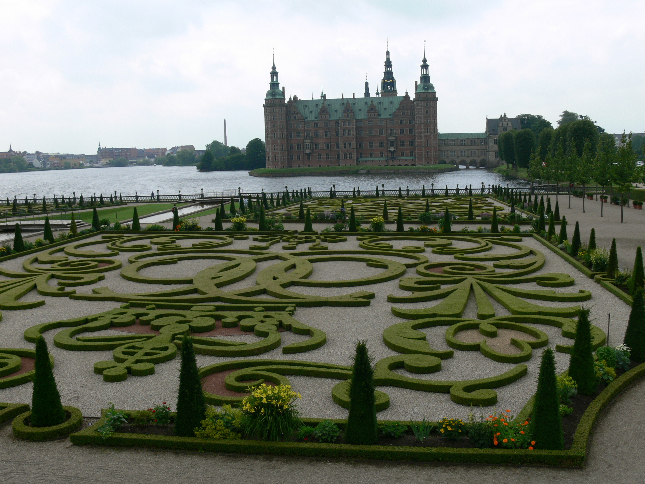 Frederiksborg palace. Baroque gardens with view to the palace.